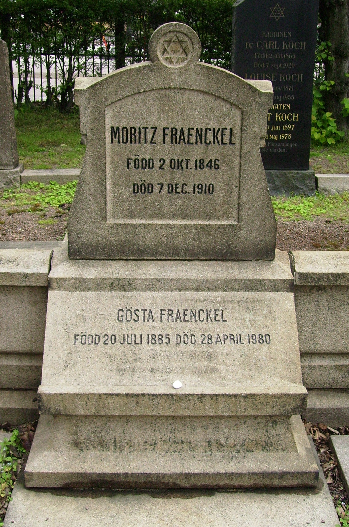 Picture of Gösta Fraenckel's grave at Mosaiska kyrkogården in Gothenburg